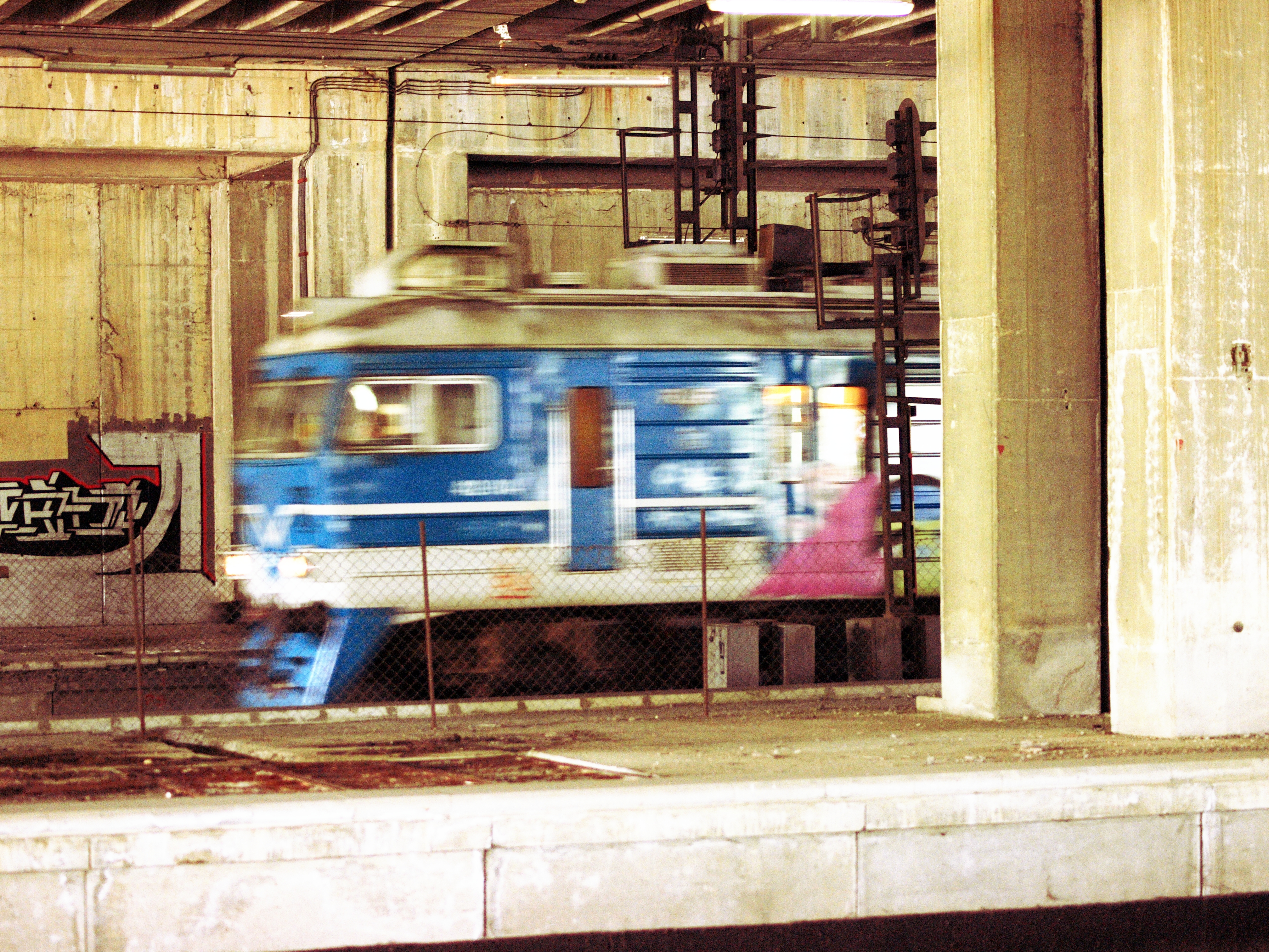 Beovoz commuter train leaving Prokop railway station